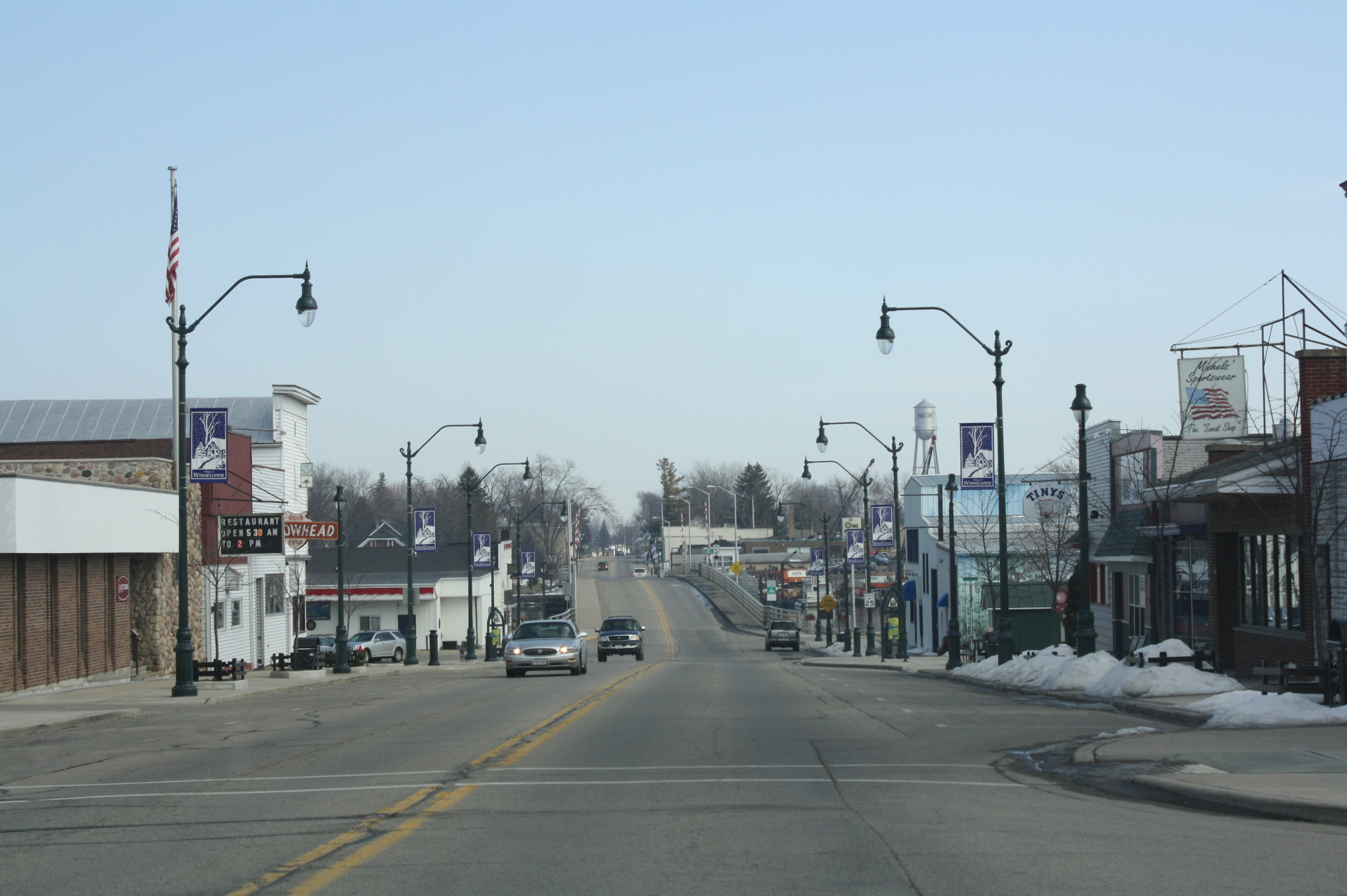 Looking east at downtown Winneconne, Wisconsin along Wisconsin Highway 116.